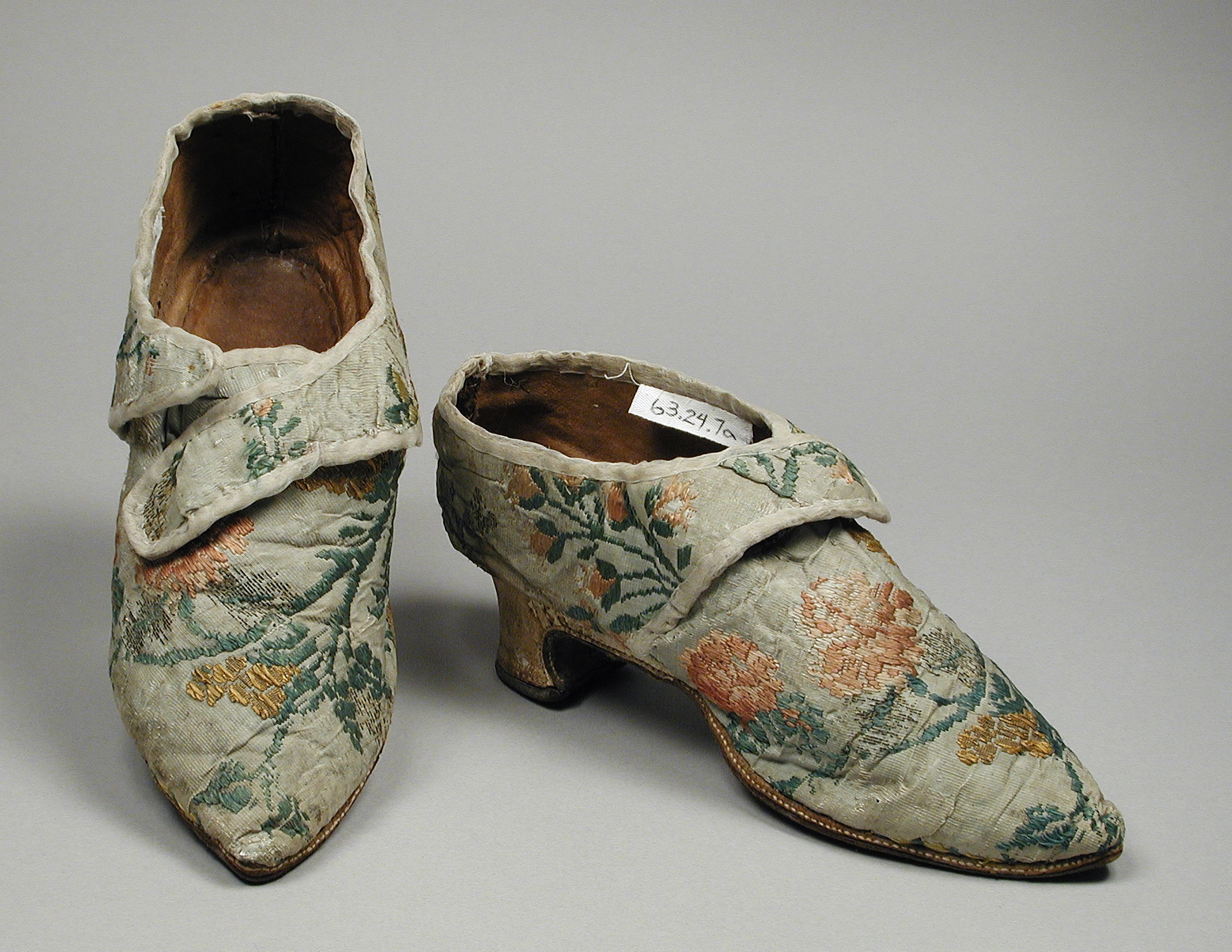 Pair of Woman’s Shoes, 1770s, probably Italy. Silk brocade, leather, and silk.